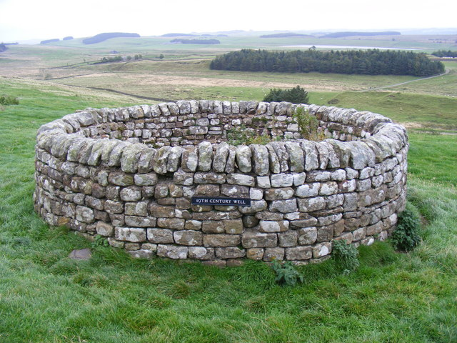 19th century well on English side of Hadrian's wall at Housesteads Fort